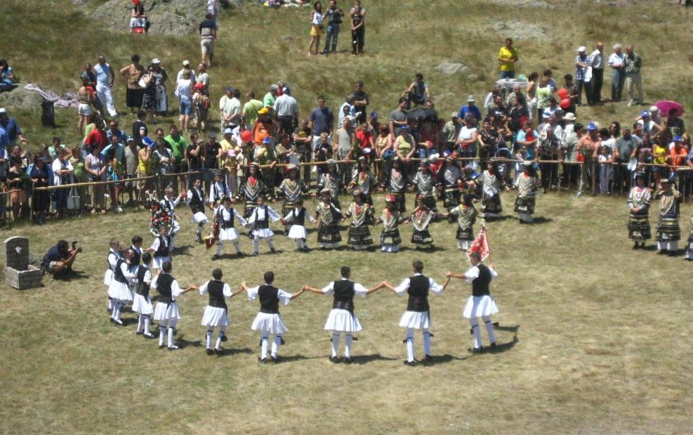 It is a picture that I have taken.